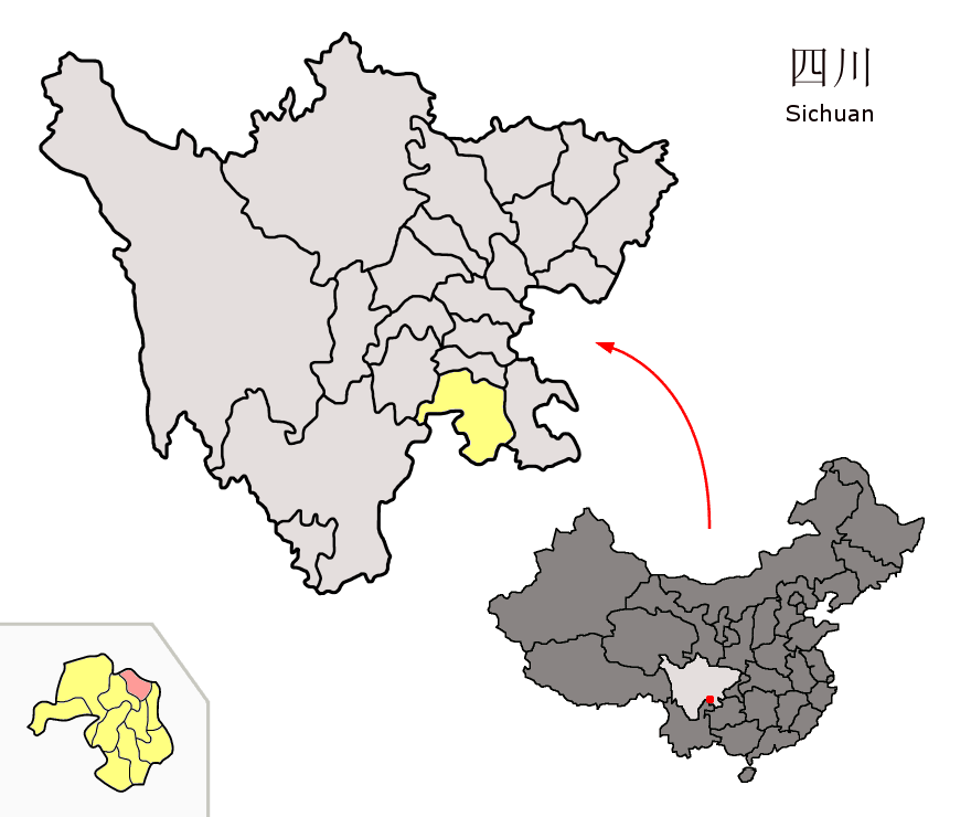 Location of Nanxi County (pink) and Yibin Prefecture (yellow) within Sichuan province of China Map drawn in october 2007 using various sources, mainly : Sichuan province administrative regions GIS data: 1:1M, County level, 1990 Sichuan Counties map from